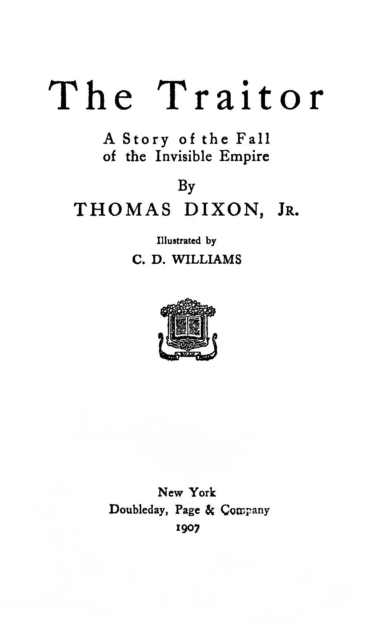 The Traitor: A Story of the Fall of the Invisible Empire.